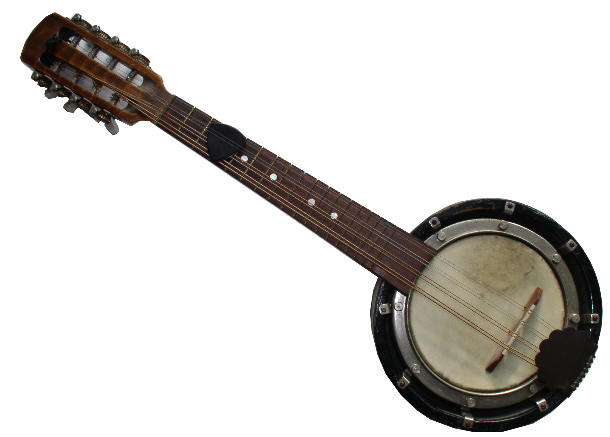 Mandolinbanjo 8-strings; plays like amandolin, sound like a banjo Own picture